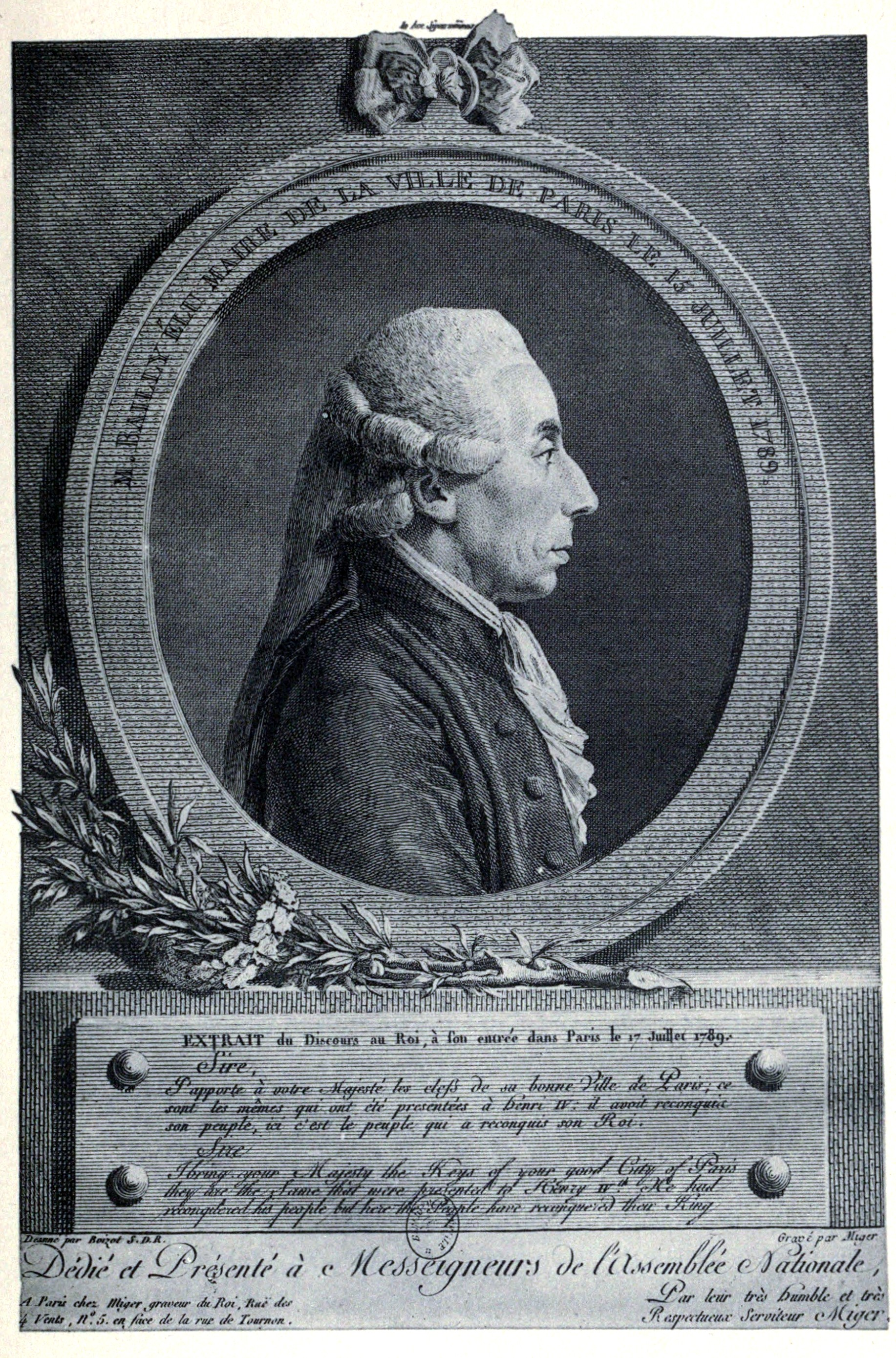 French portrait engraving of the XVIIth and XVIIIth centuries (1910) Author: Thomas, Thomas Head, 1881- Subject: Engraving -- France History; Engravers -- France; Portraits, French; Art, Modern -- 17th-18th centuries France; France -- Biography Portraits Publisher: London, Bell Possible copyright status: NOT_IN_COPYRIGHT Language: English Call number: nrlf_ucb:GLAD-167946426 Digitizing sponsor: MSN Book contributor: University of California Libraries Collection: americana; cdl Selected metadata Copyright-evidence-operator: judyjordan Copyright-region: US Copyright-evidence: Evidence reported by judyjordan for item frenchportraiten00thomrich on November 30, 2007: no visible notice of copyright; stated date is 1910. Copyright-evidence-date: 20071130014042 Scanningcenter: rich Mediatype: texts Collection-library: nrlf_ucb Identifier-bib: GLAD-167946426 Identifier: frenchportraiten00thomrich Imagecount: 402 Ppi: 400 Lcamid: 320094 Rcamid: 333345 Camera: 1Ds Operator: scanner-david-stites@... Scanner: rich4 Scandate: 20071130071150 Identifier-access: Identifier-ark: ark:/13960/t06w9992r Bookplateleaf: 0005 Sponsordate: 20071130